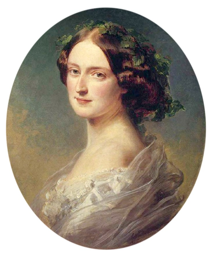 Lady Clementina Augusta Wellington Child-Villiers (1824-1858), daughter of The 5th Earl of Jersey